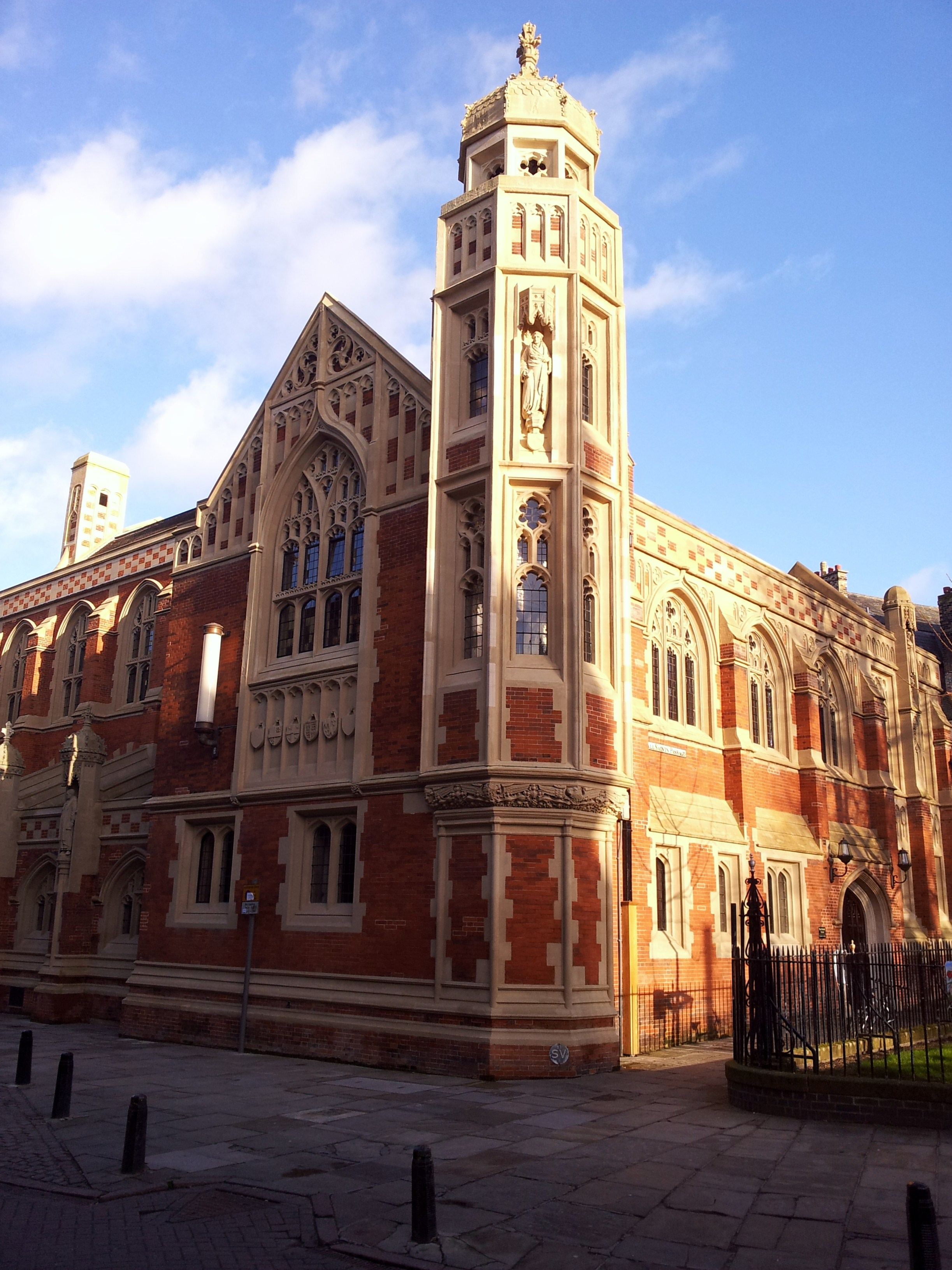 Recently refurbished Old Divinity School